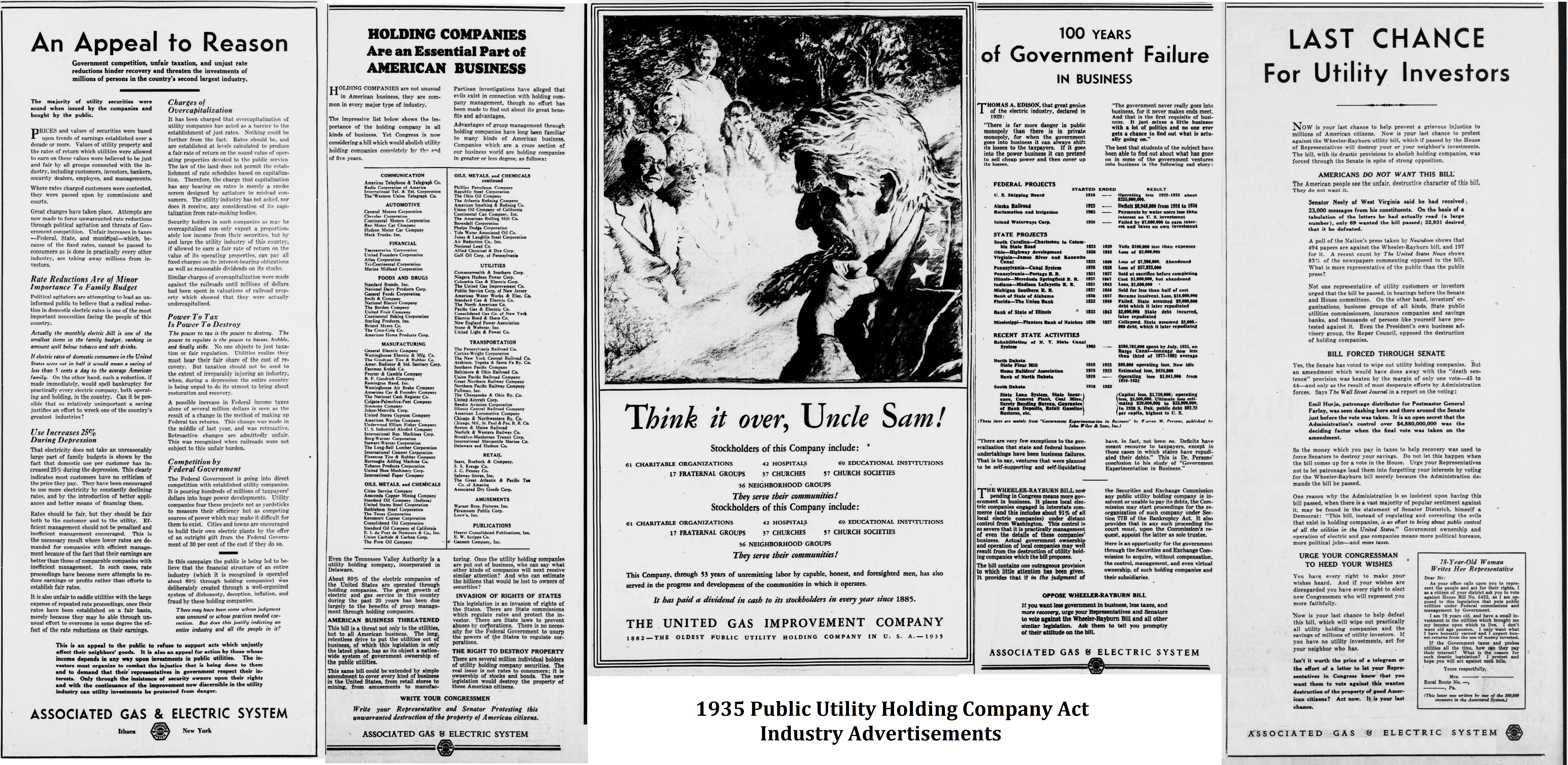 Collage of May-June 1935 appearing in the Washington D.C. Evening Star opposing the Wheeler-Rayburn bill or the Pubic Utilities Holding Company Act